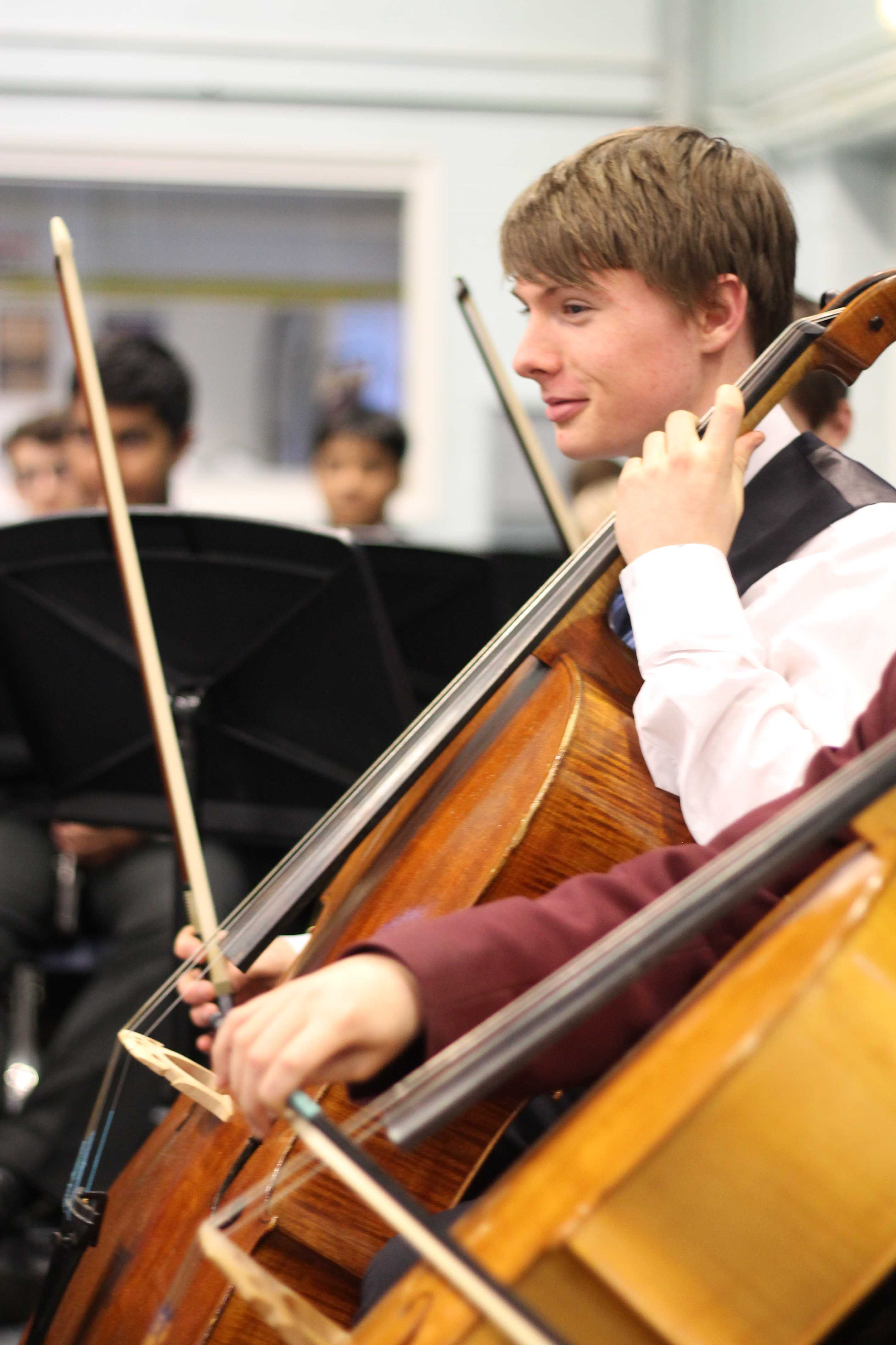 Sutton Grammar School orchestra